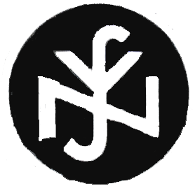 Emblem of the NSV (Nationalsozialistische Volkswohlfahrt) - National-Socialistic Commonwealth